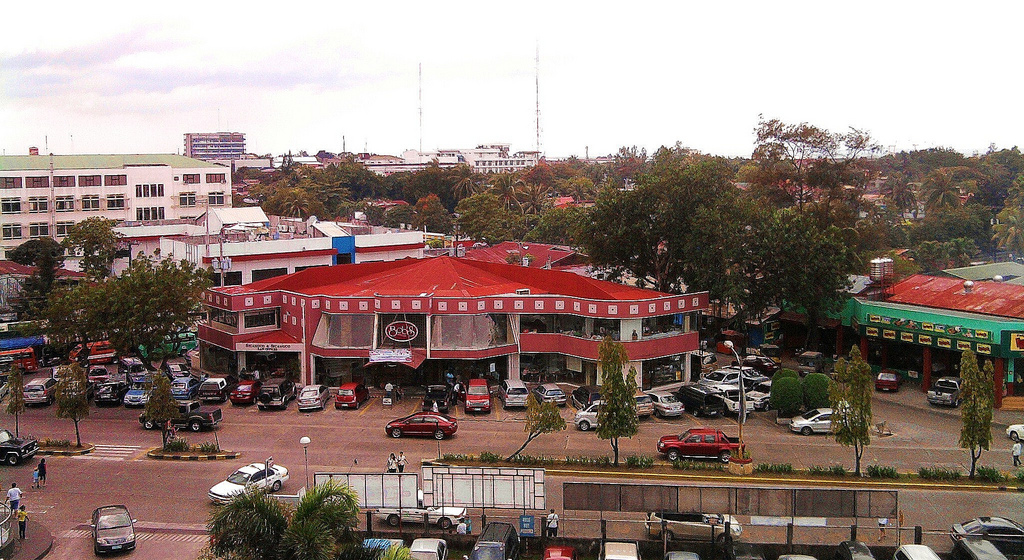 northdrive bacolod city